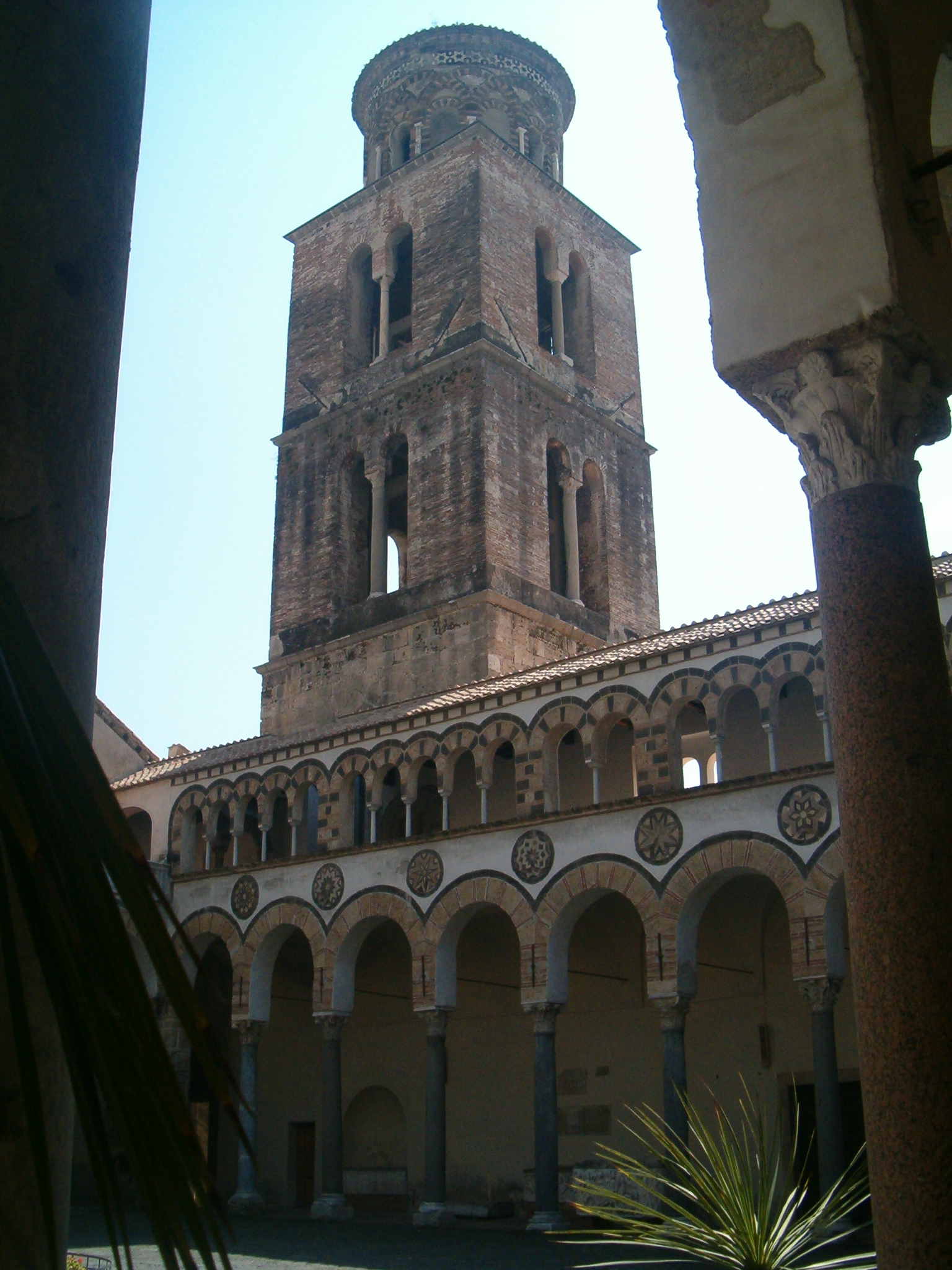 Salerno's tower dolls